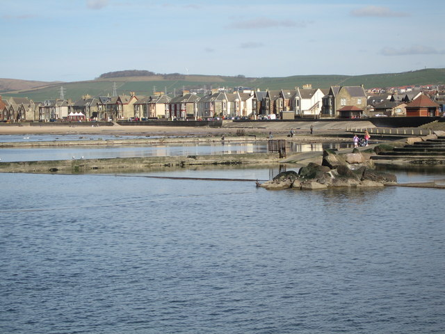 Sea water pools